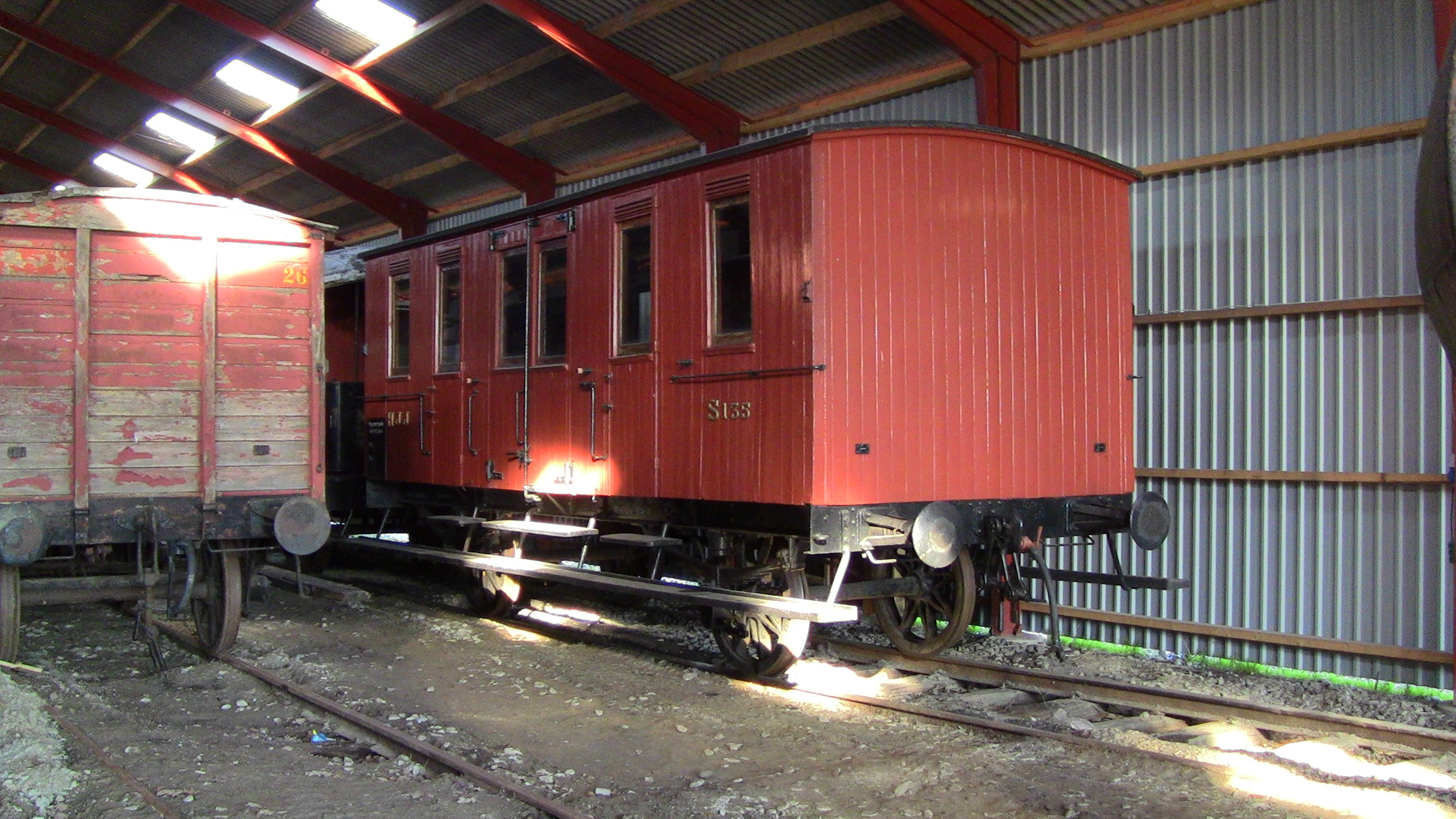 The depot of the heritage Railway Museumsbanen in Maribo in Denmark. The railway coach HJJ S 135 from 1917.